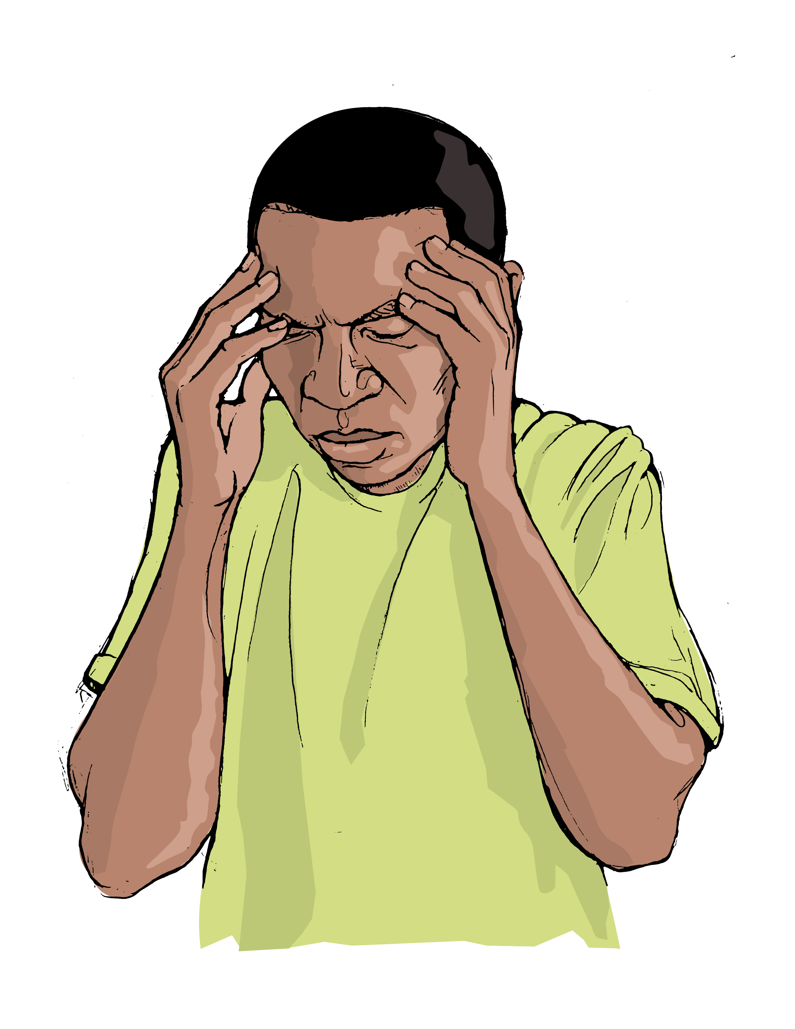 Images showing individual symptoms of Ebola